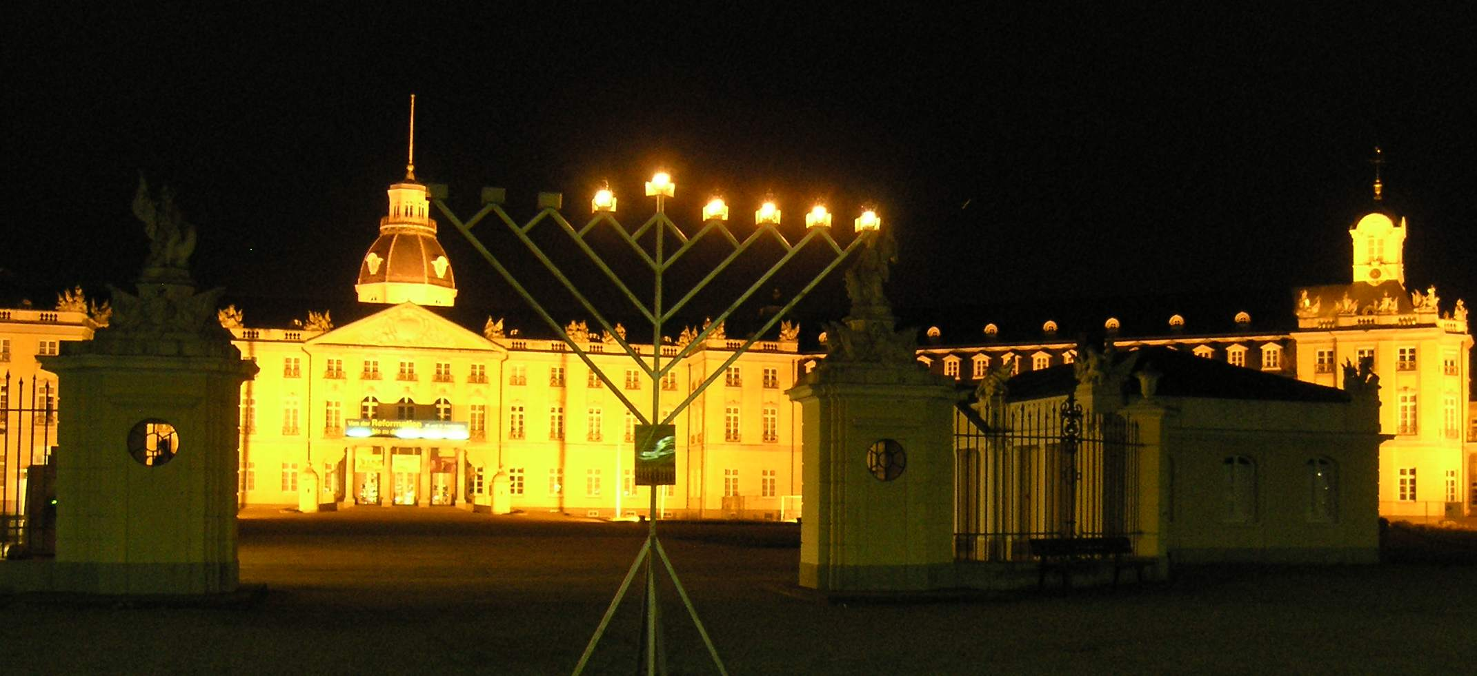 Hanukiah in front of Karlsruhe castle